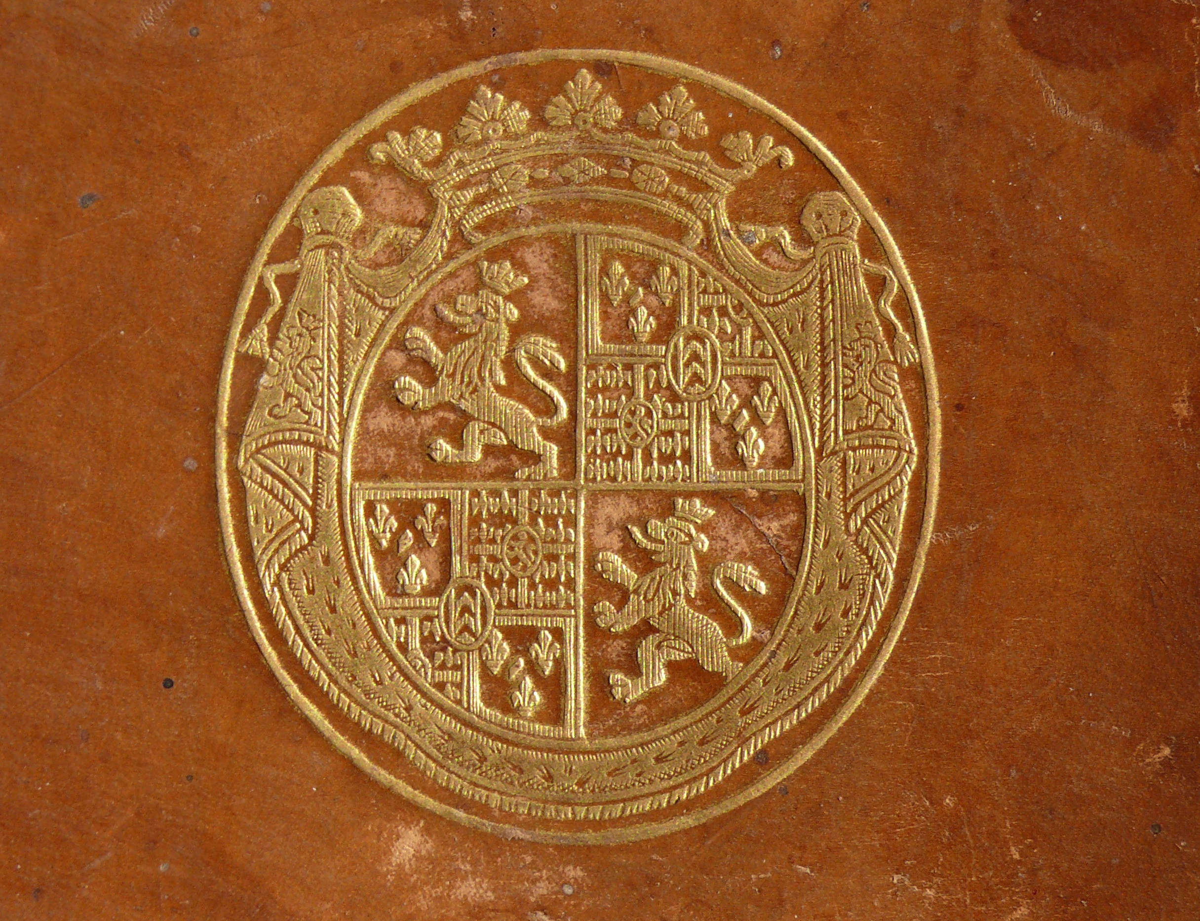 Coats of arms of Marie-Charles-Louis d'Albert, 5e duc de Luynes (1717-1771) on a veal binding book.